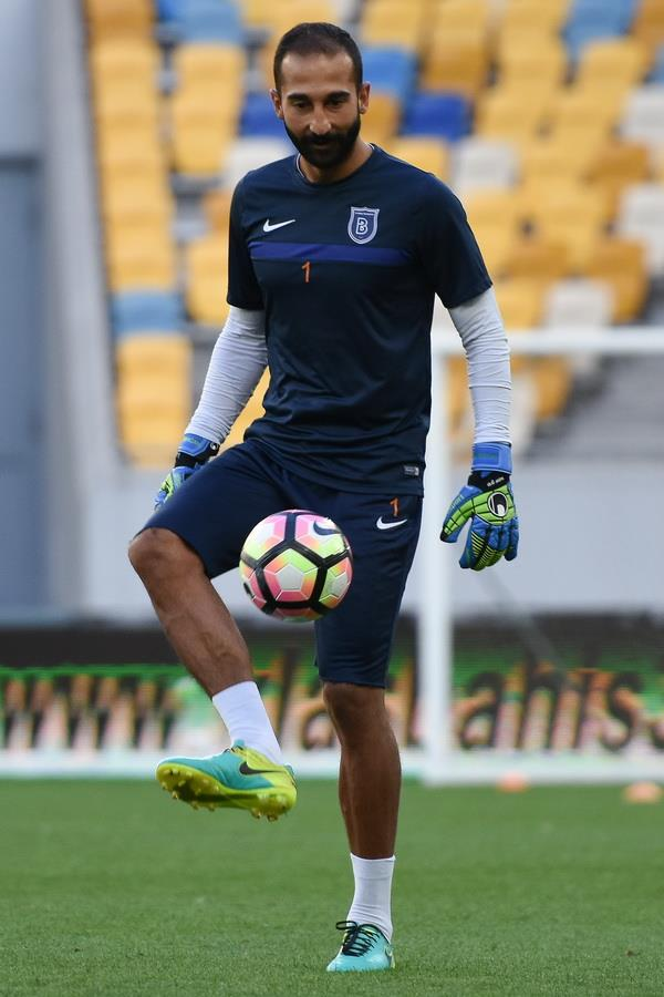 Volkan Babacan